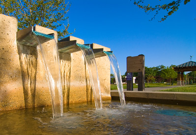 Town Green Fountain in Windsor, CA